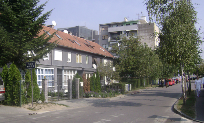 Cvjetno naselje districts in Zagreb.